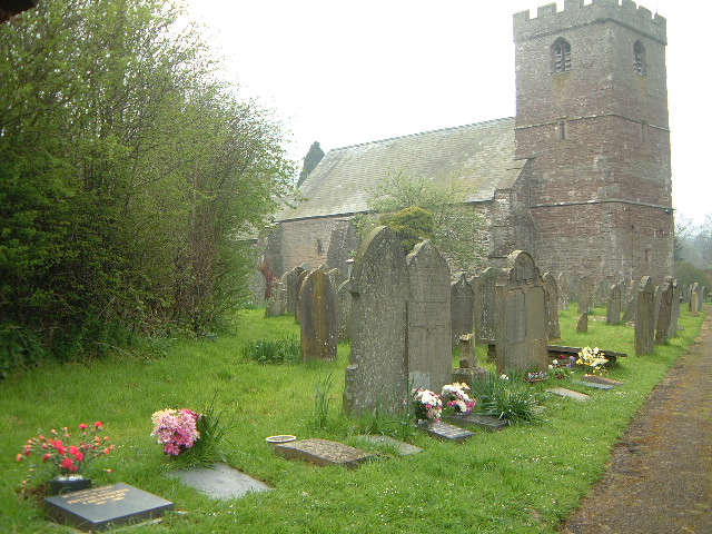 Clodock Church. Clodock Church and graveyard, Herefordshire.